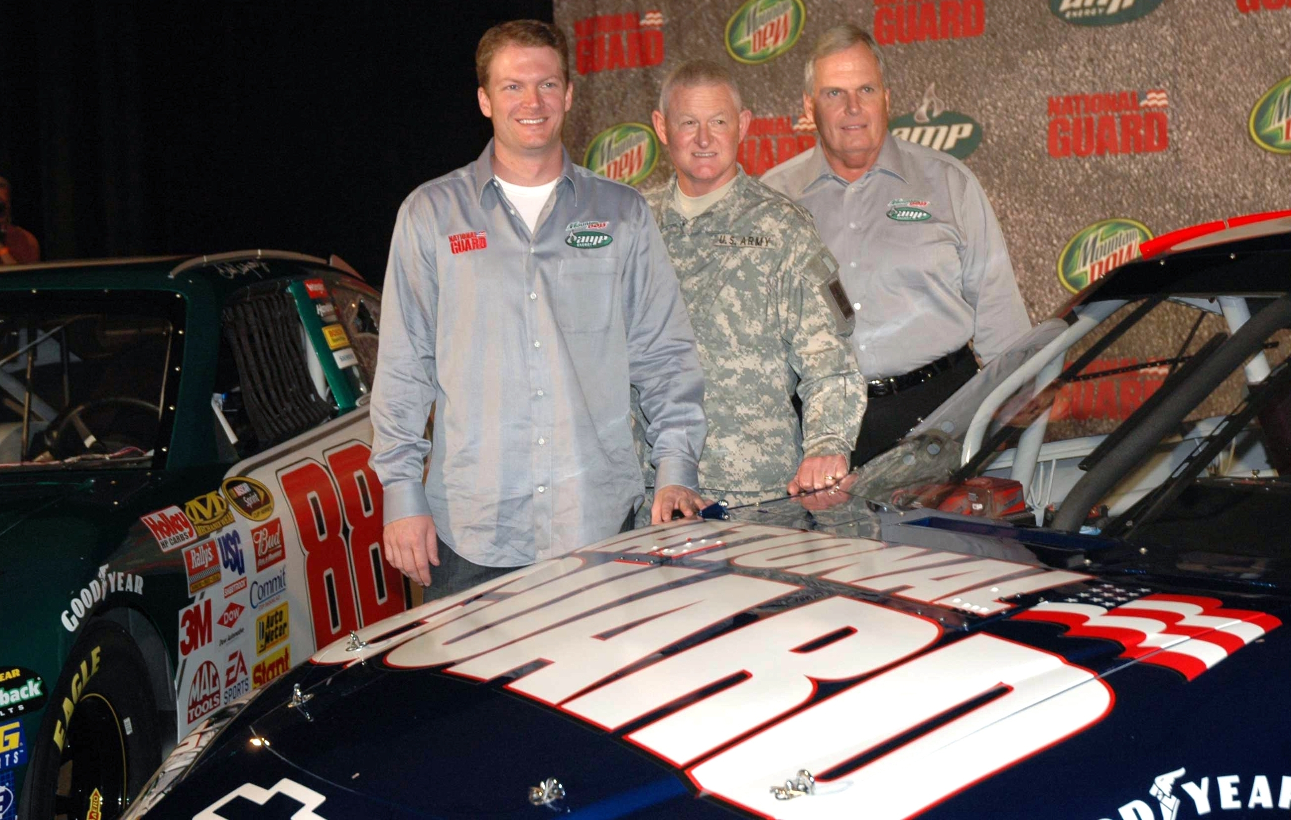 Image by Master Sgt. Bob Haskell, U.S. Army. The image is published by the U.S. Army on their website at the following address: As the work of a U.S. govermnent agency, it is not covered by copyright. Uploaded January 31, by Edhubbard.